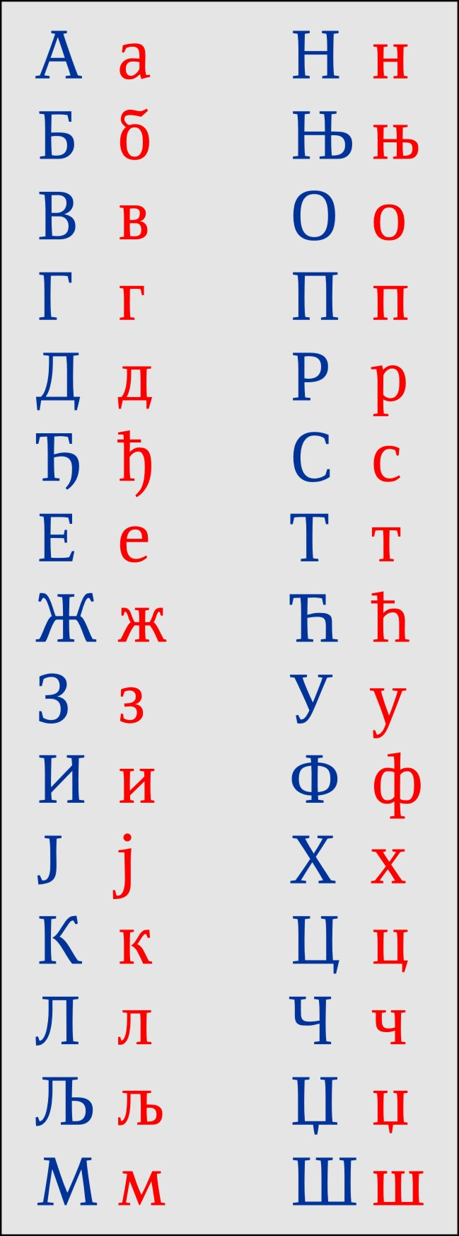 Serbian alphabet